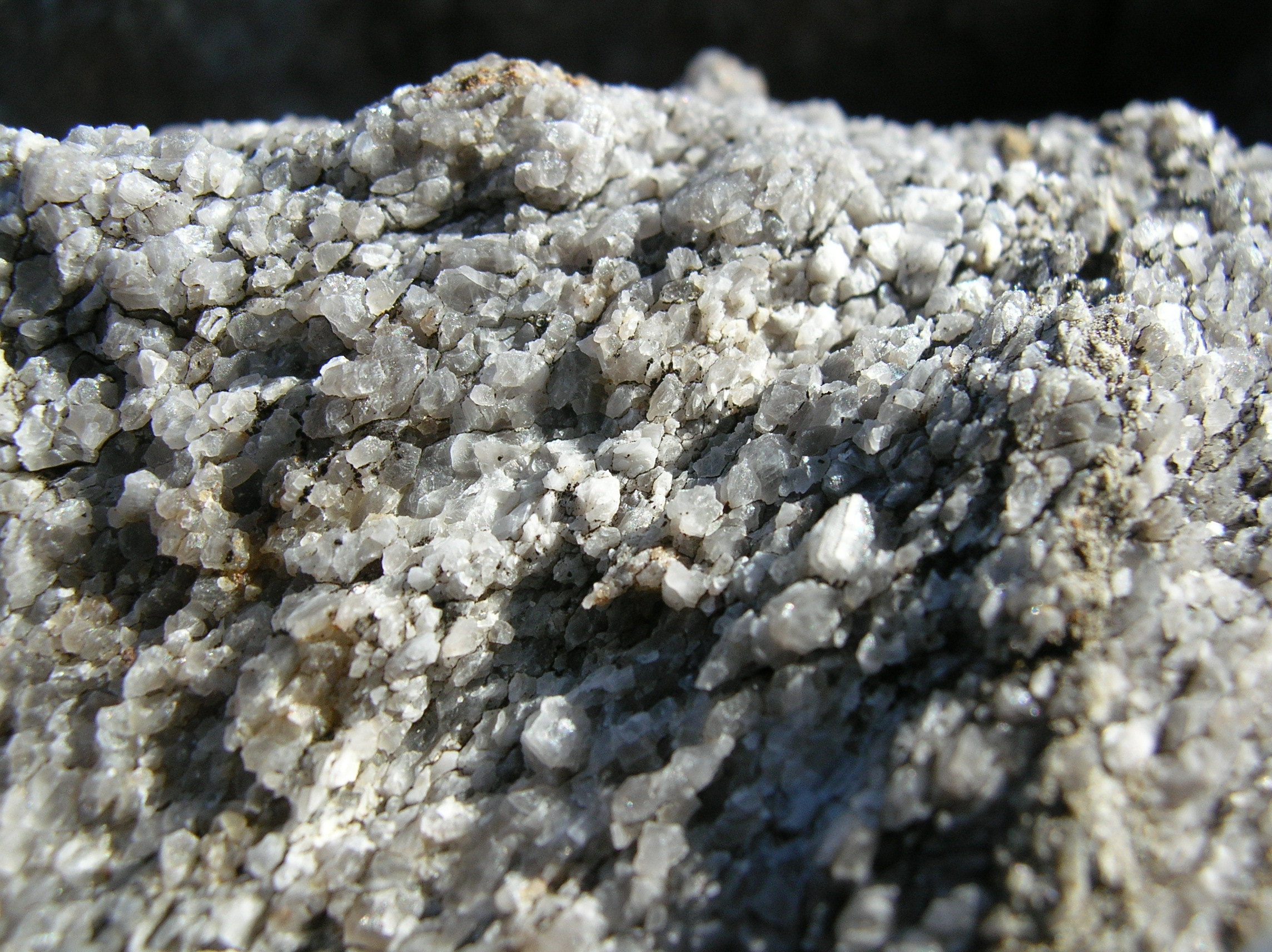 CaCO3,1mm-4mm,orthorhombic A≠B≠C Ogama-hanzo,Karakuwa-town,Kesennuma-city,Miyagi-prefecture,Japan